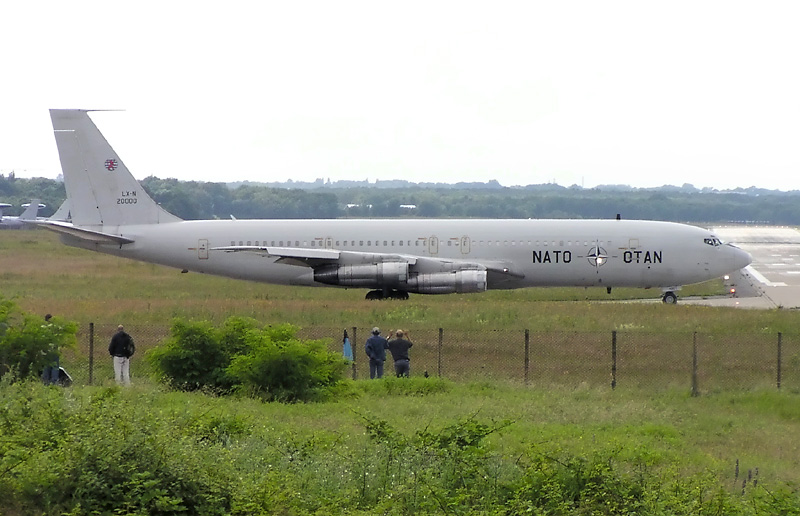 Boeing CT-49A NATO Trainer/Cargo Aircraft (LX-N20000, Boeing 707-307C, ex Deutsche Luftwaffe 10+04), Geilenkirchen AB, Germany.